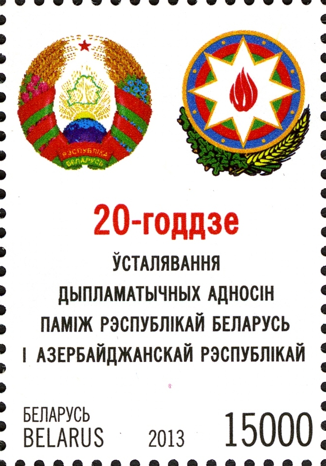 20th Anniversary of Establishment of Diplomatic Relations between Republic of Belarus and Republic of Azerbaijan